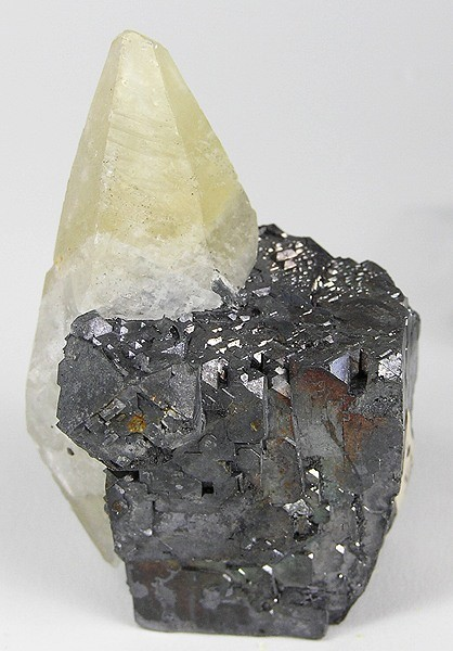 Calcite, Galena Locality: Joplin Field, Tri-State District, Jasper County, Missouri, USA (Locality at ) Size: 5.1 x 3.2 x 2.8 cm. A striking old Joplin combination specimen, featuring a translucent calcite twin that has wrapped itself around a cube of galena.